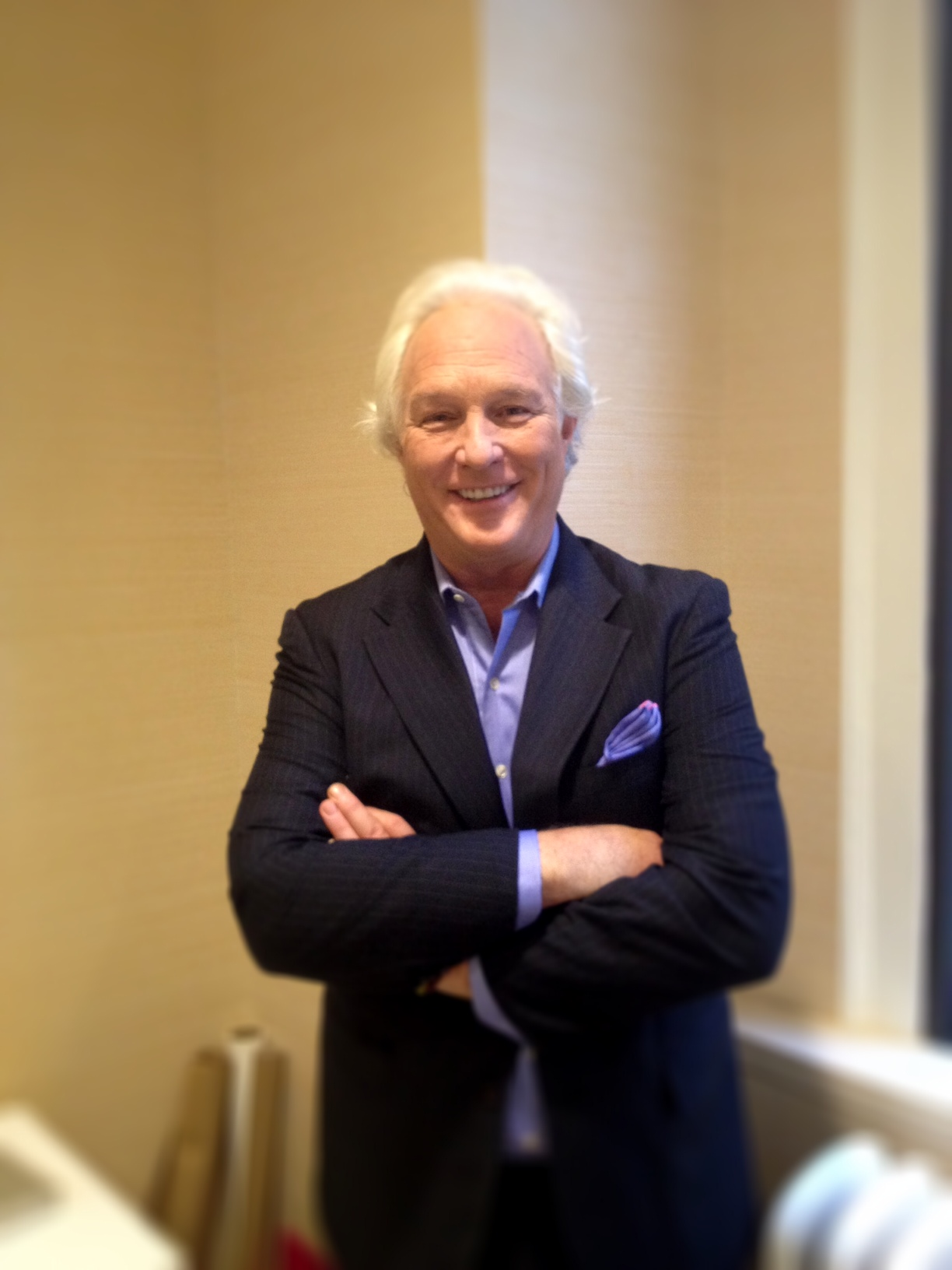 A photograph of Christopher Burch